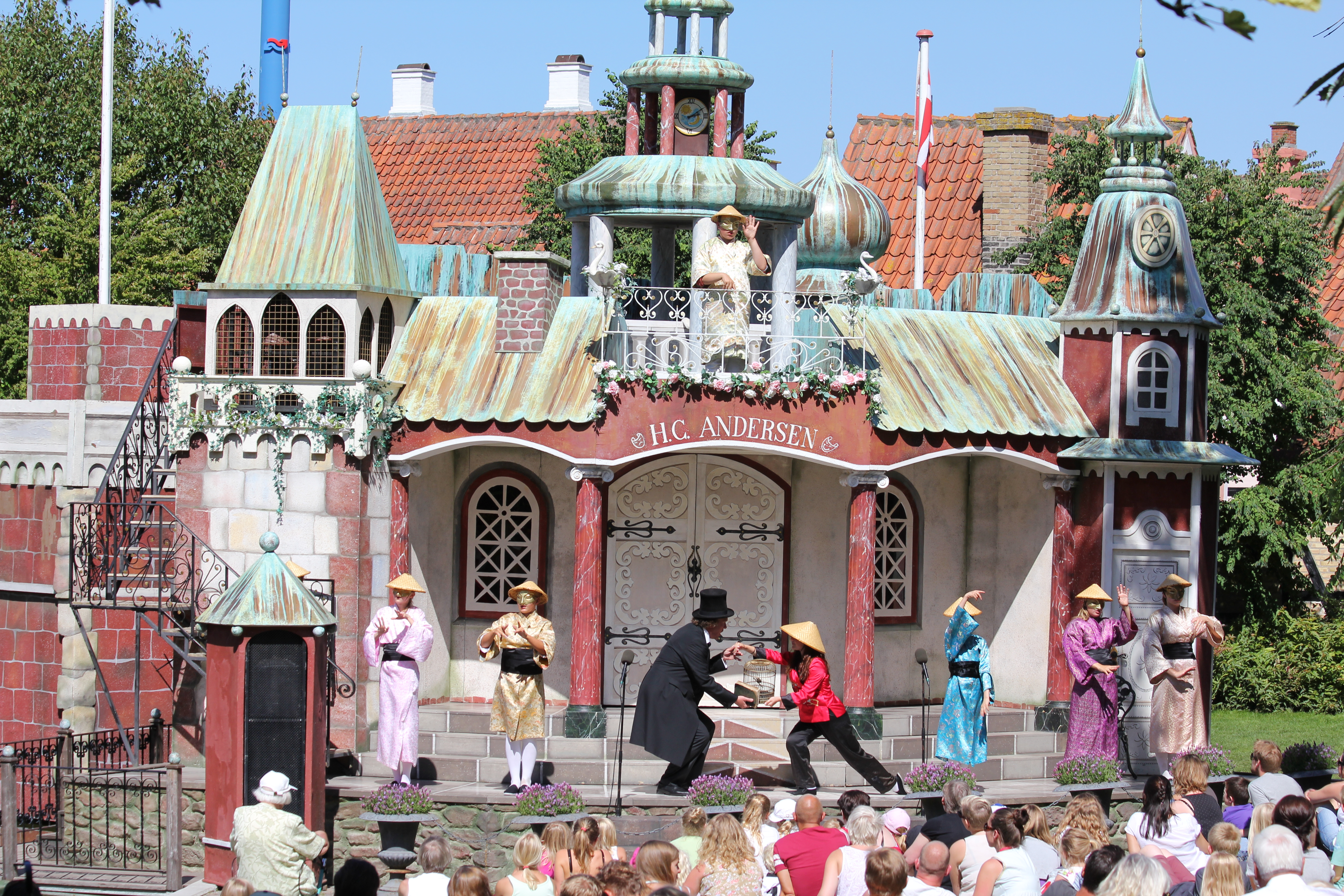 The Hans Christian Andersen Parade in Odense(Denmark), with the fairytale about the nightingale